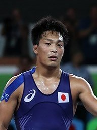 Shinobu Ota; Rio 2016; Greco-Roman Wrestling 59 kg